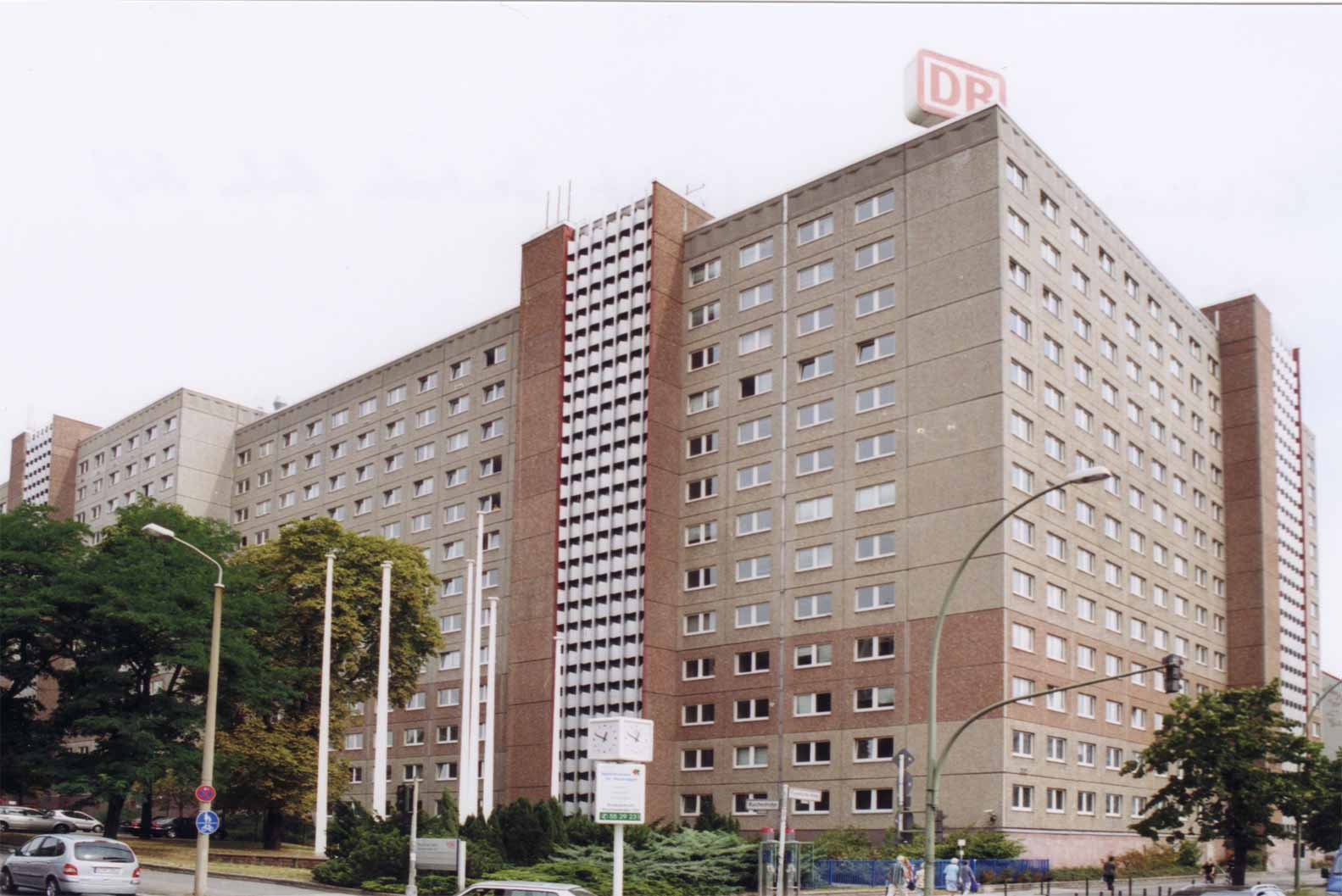 Office building of the HVA (foreign intelligence service) in the Ministry for State Security (Stasi) in Berlin-Lichtenberg. 2003 one of the offices of Deutsche Bahn AG.